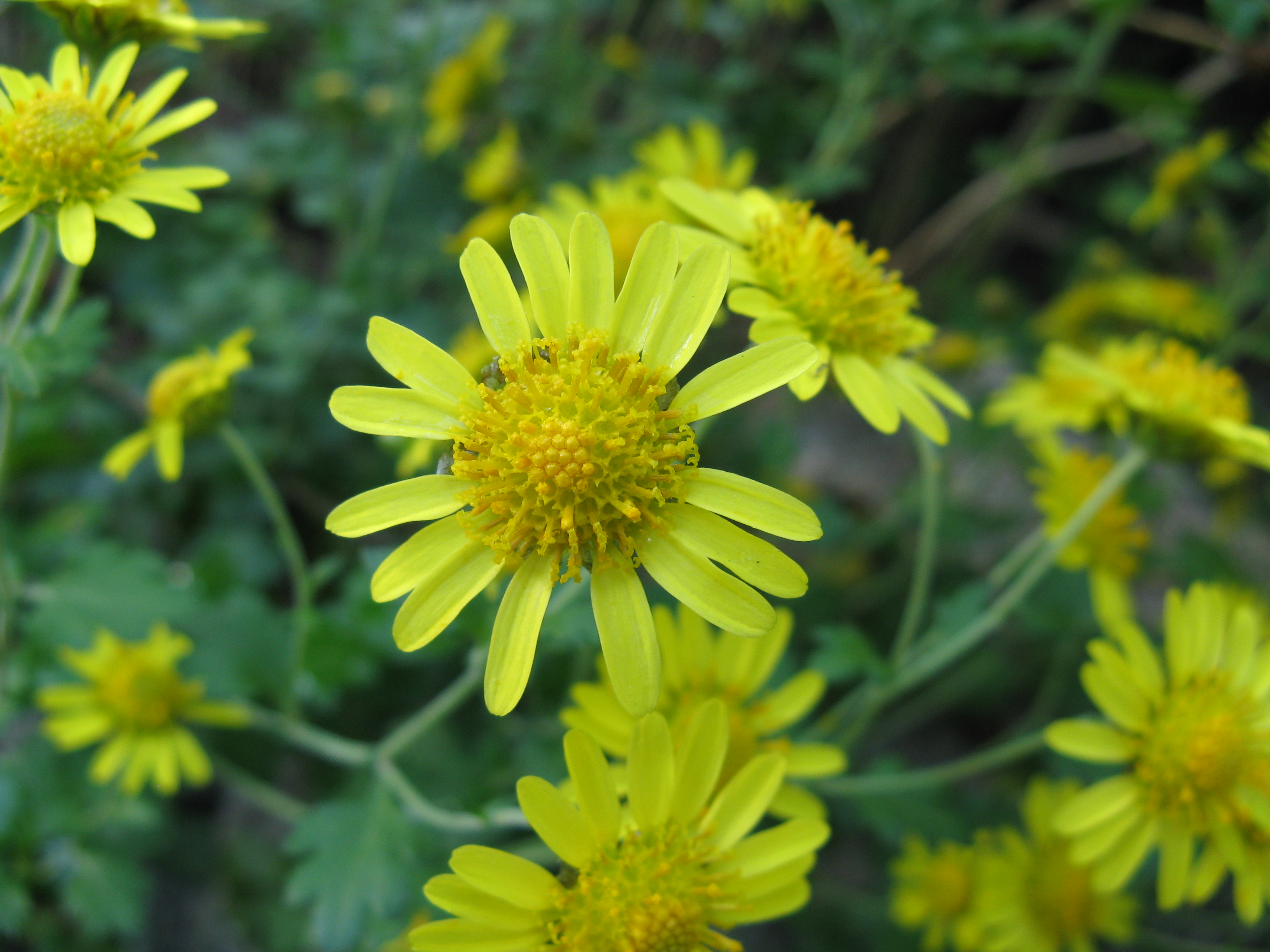 Scientific name Chrysanthemum × ogawae